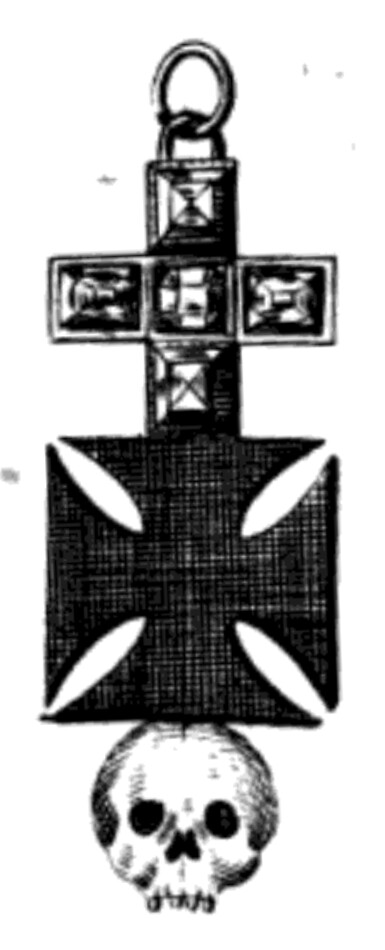 Order of Death's Head